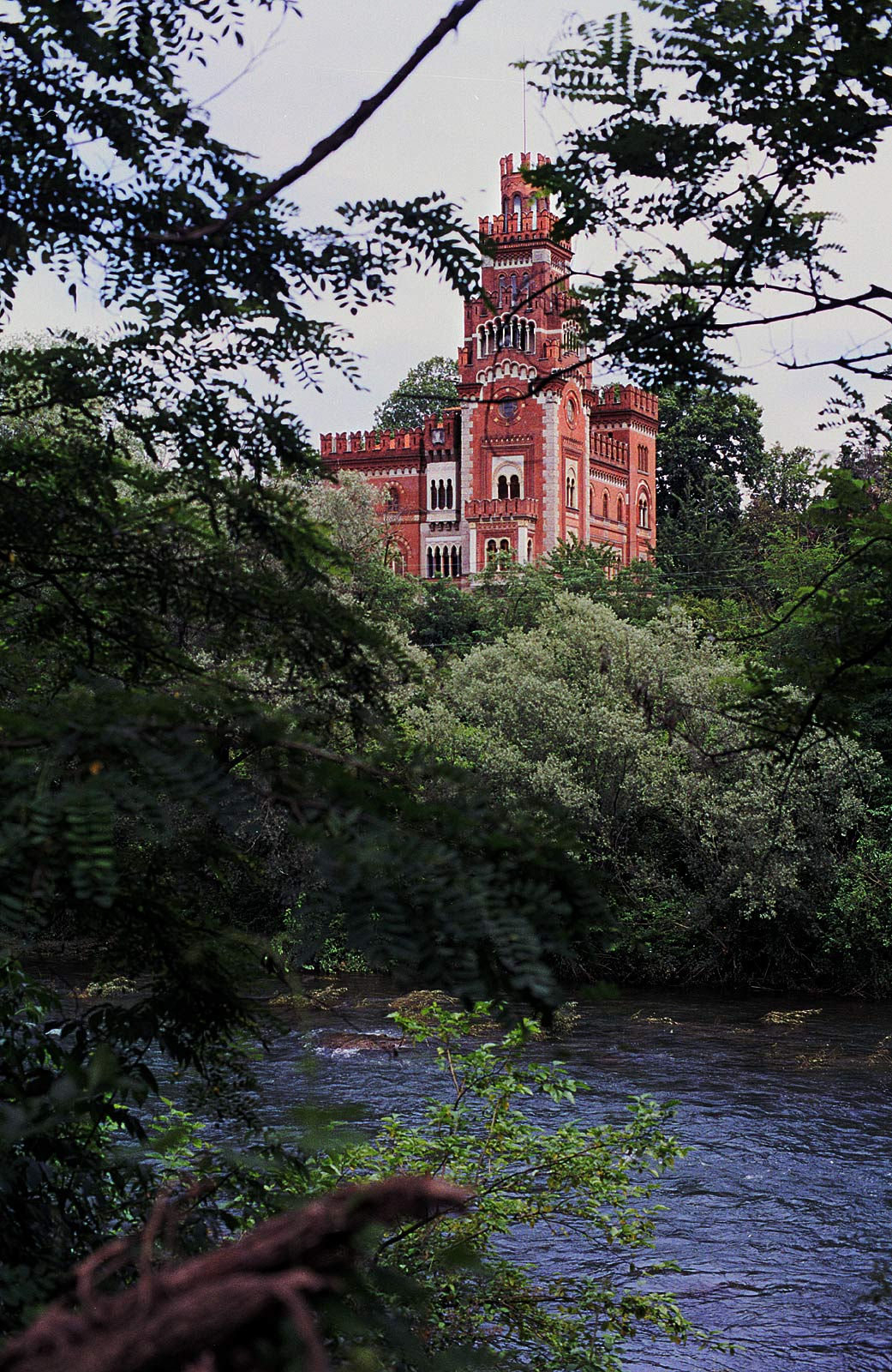 The Crespi residence, or "castle", at the industrial model village of Crespi d'Adda pictured from across the river Adda.